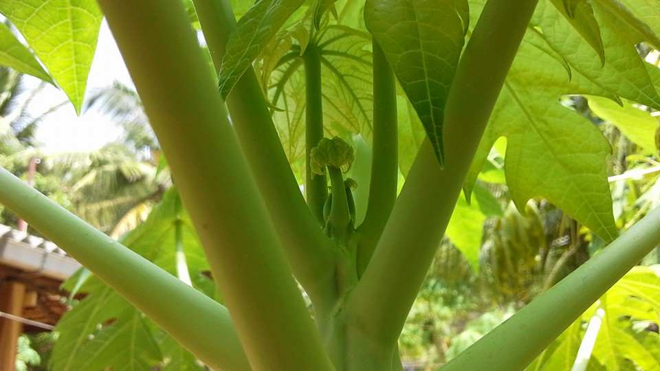 Young leaves of Papaw in Jaffna, SriLanka